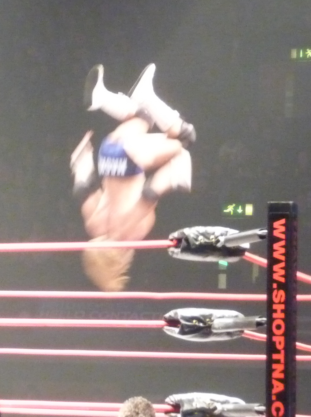 Mark Haskins performing a shooting star press in January 2011, at a Total Nonstop Action Wrestling event at the Wembley Arena. Cropped from original.